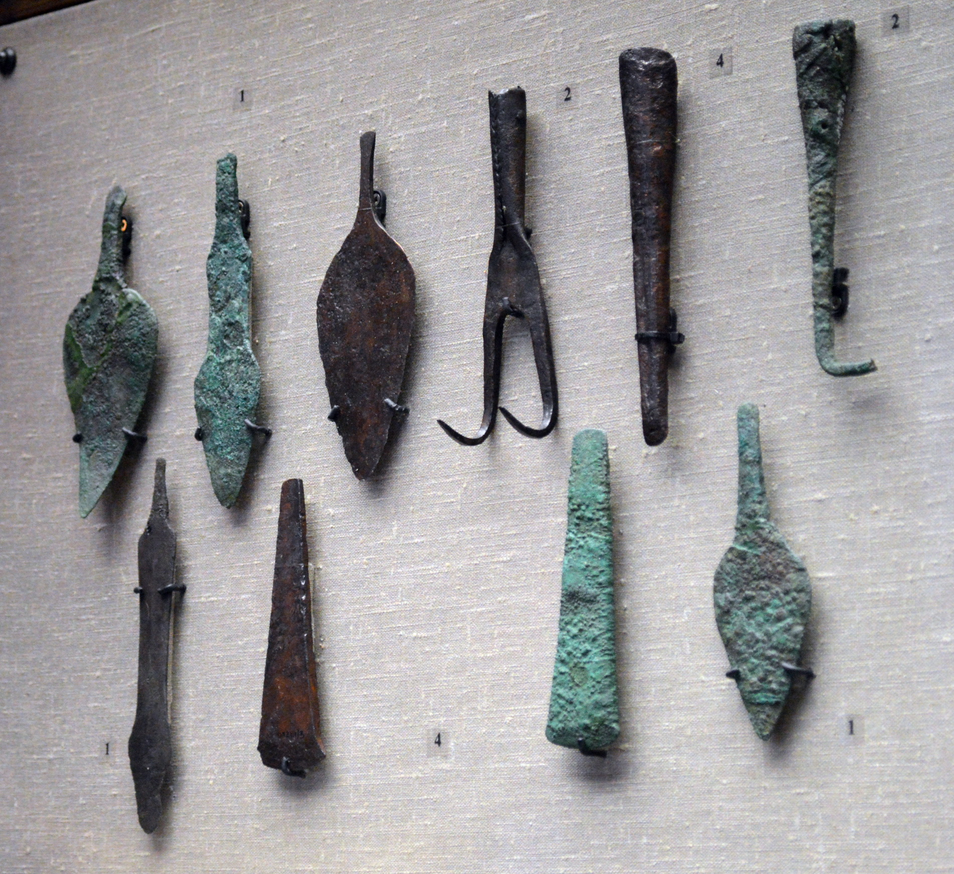 Catacomb culture, middle - second half of 3 mill. BC. Knifes, hooks, adzes; bronze.